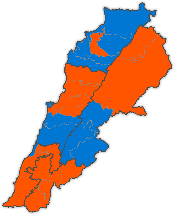 Map of the results of the Lebanese general election